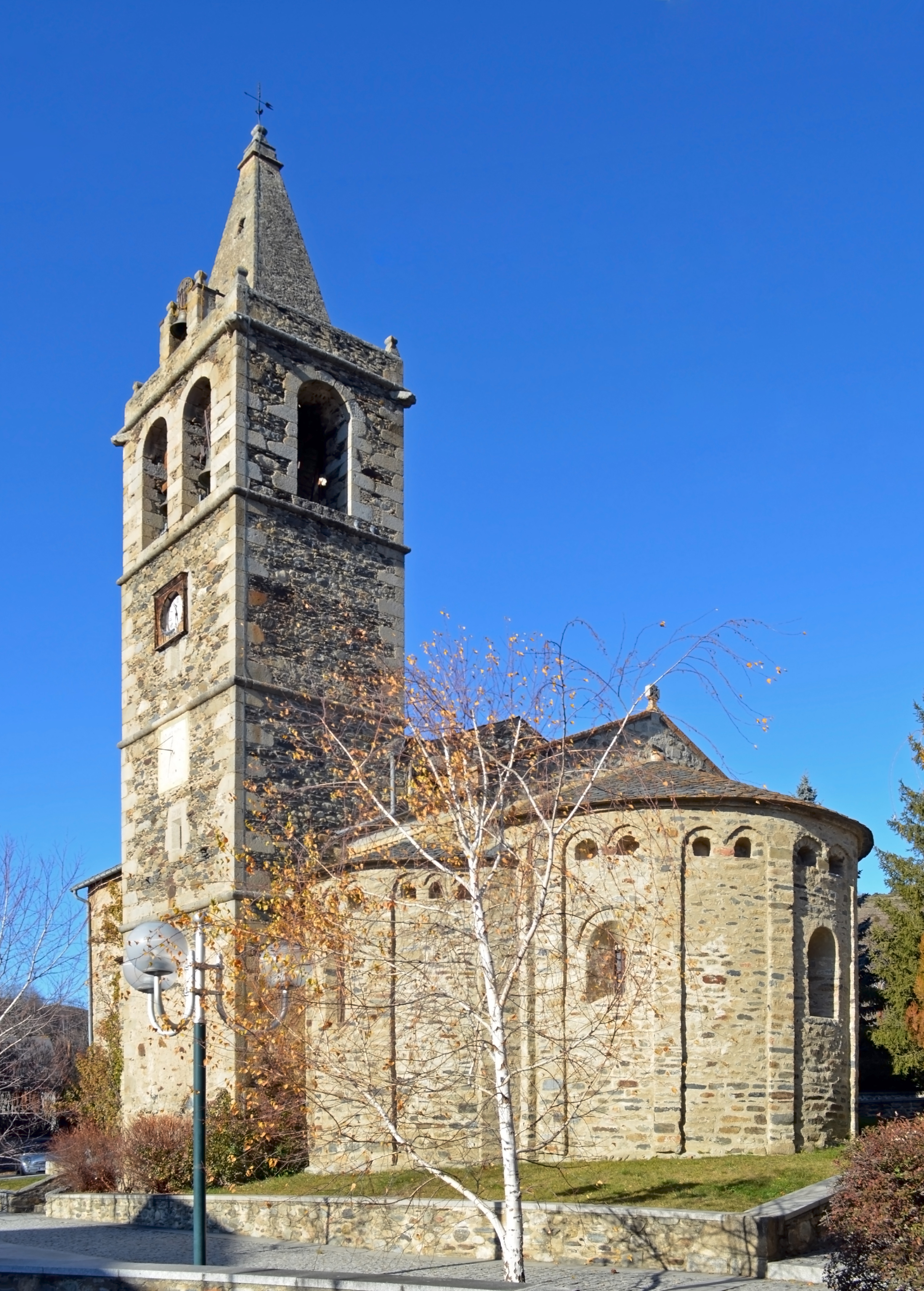 Saint-Martin church, Ur (Pyrénées-Orientales) - France .